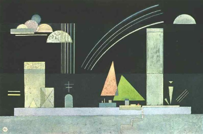 At rest